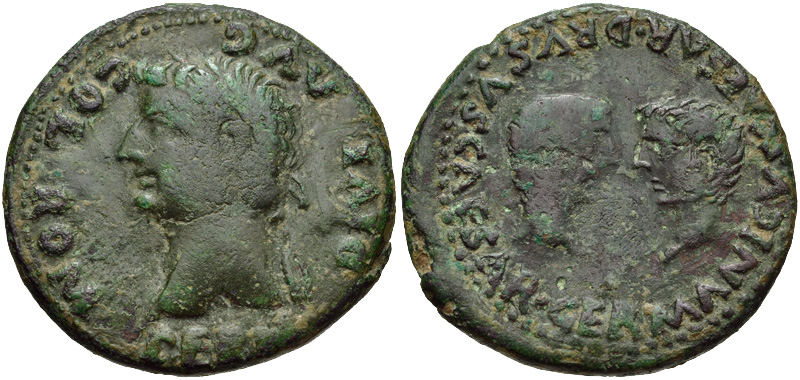 Spain, Colonia Romula (nowdays Sevilla). Tiberius, with Germanicus and Drusus Caesars. AD 14-37. Æ As (30mm, 14.80 g, 1h). PERM DIVI AVG COL ROM, Laureate head of Tiberius left GERMANICVS CAESAR DRVSVS CAESAR Bare heads of Germanicus and Drusus, vis-à-vis. RPC I 74; SNG Copenhagen -; Burgos 1588. Good Fine, green patina, light roughness. From the J.P. Righetti Collection, 8259. Ex Auctiones 29 (12 June 2003), lot 37.